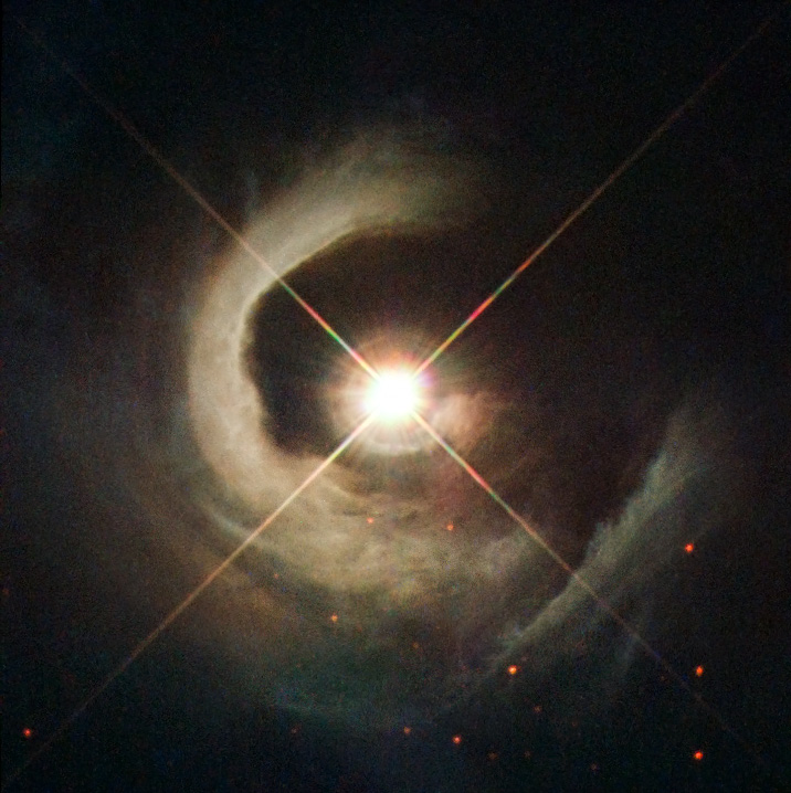 With its helical appearance resembling a snail’s shell, this reflection nebula seems to spiral out from a luminous central star in this new NASA/ESA Hubble Space Telescope image. The star in the centre, known as V1331 Cyg and located in the dark cloud LDN 981 — or, more commonly, Lynds 981 — had previously been defined as a T Tauri star. A T Tauri is a young star — or Young Stellar Object — that is starting to contract to become a main sequence star similar to the Sun. What makes V1331 Cyg special is the fact that we look almost exactly at one of its poles. Usually, the view of a young star is obscured by the dust from the circumstellar disc and the envelope that surround it. However, with V1331 Cyg we are actually looking in the exact direction of a jet driven by the star that is clearing the dust and giving us this magnificent view. This view provides an almost undisturbed view of the star and its immediate surroundings allowing astronomers to study it in greater detail and look for features that might suggest the formation of a very low-mass object in the outer circumstellar disc.